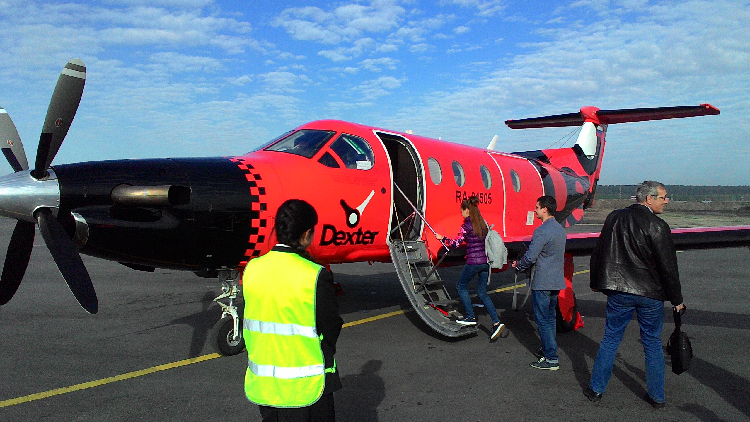 Pilatus PC-12 (RA-01505) at Nizhny Novgorod Airport